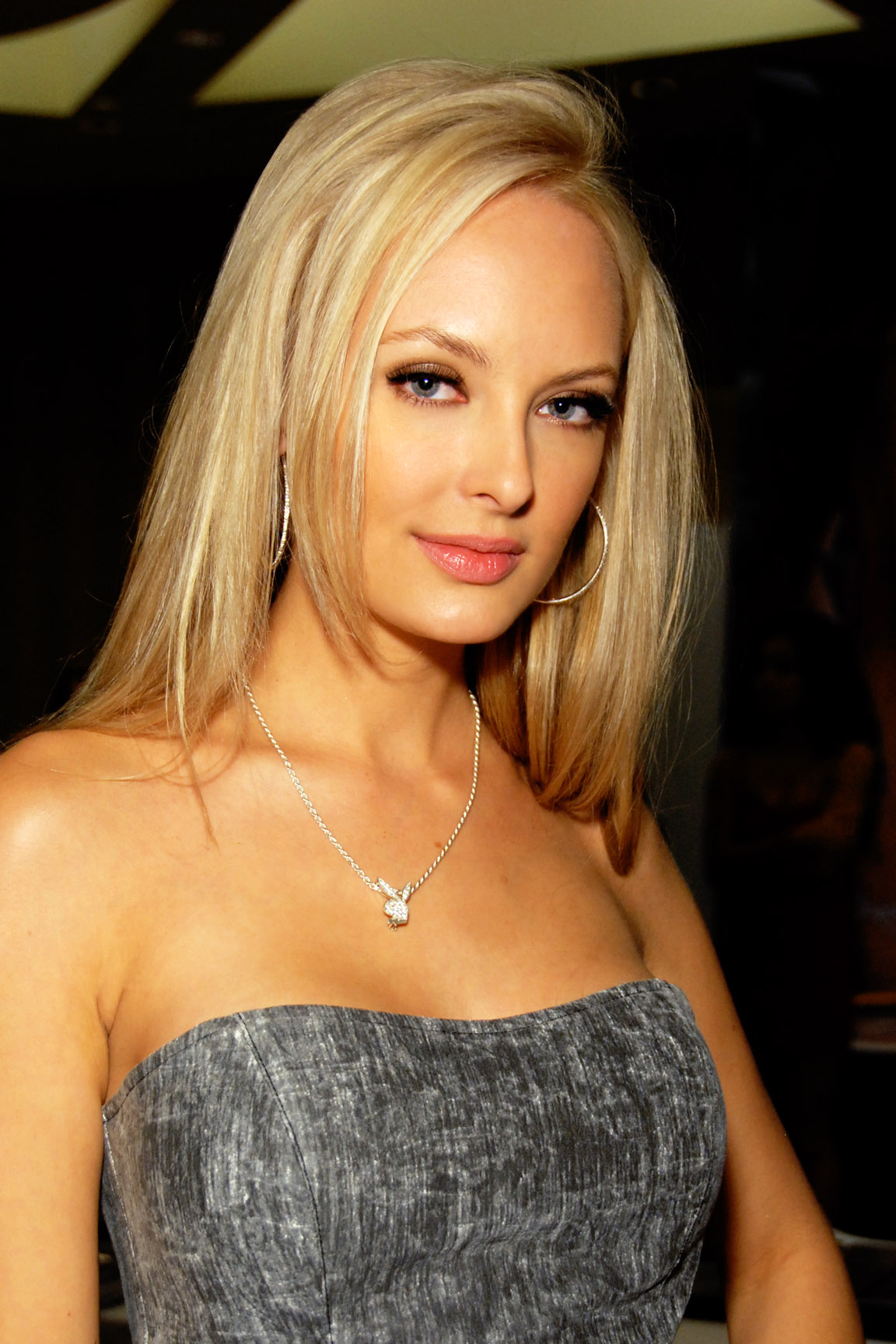 Shera Bechard attending Glamourcon #50, Long Beach, CA on November 13, 2010 - Photo by Glenn Francis of